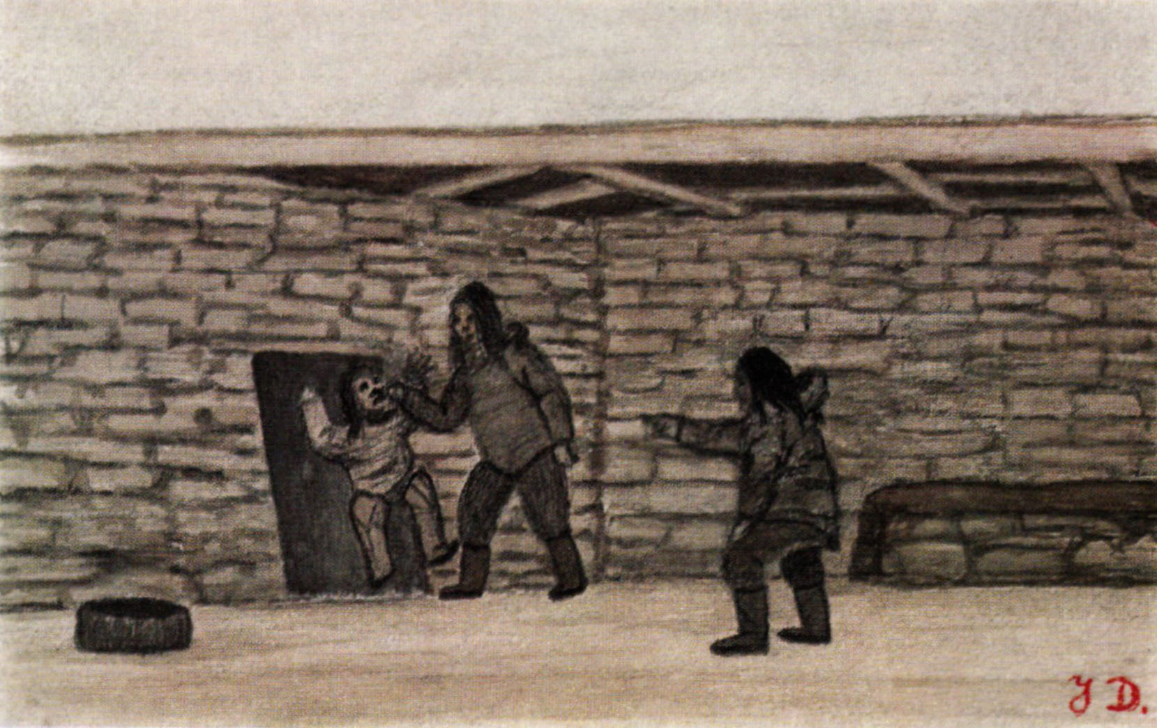 Jakob Danielsen - 02 Kaassassuk lifted by nostrils